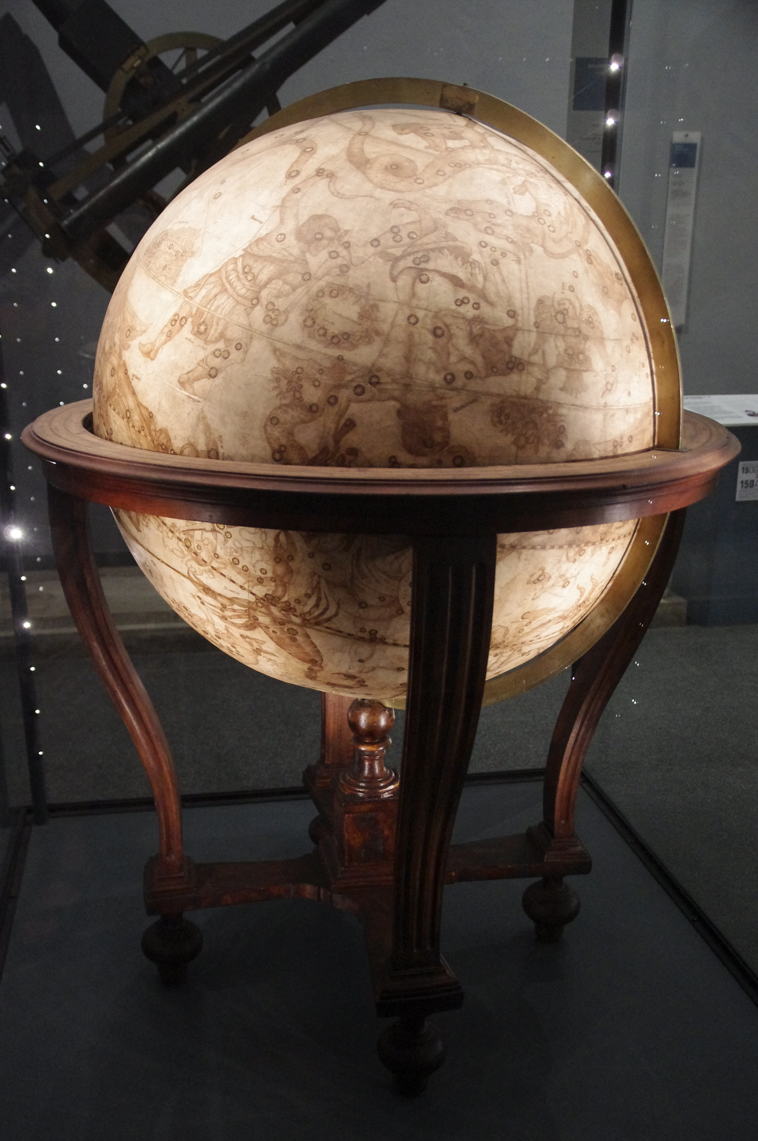 Celestial globe in National Museum of Science and Technology Leonardo da Vinci in Milan